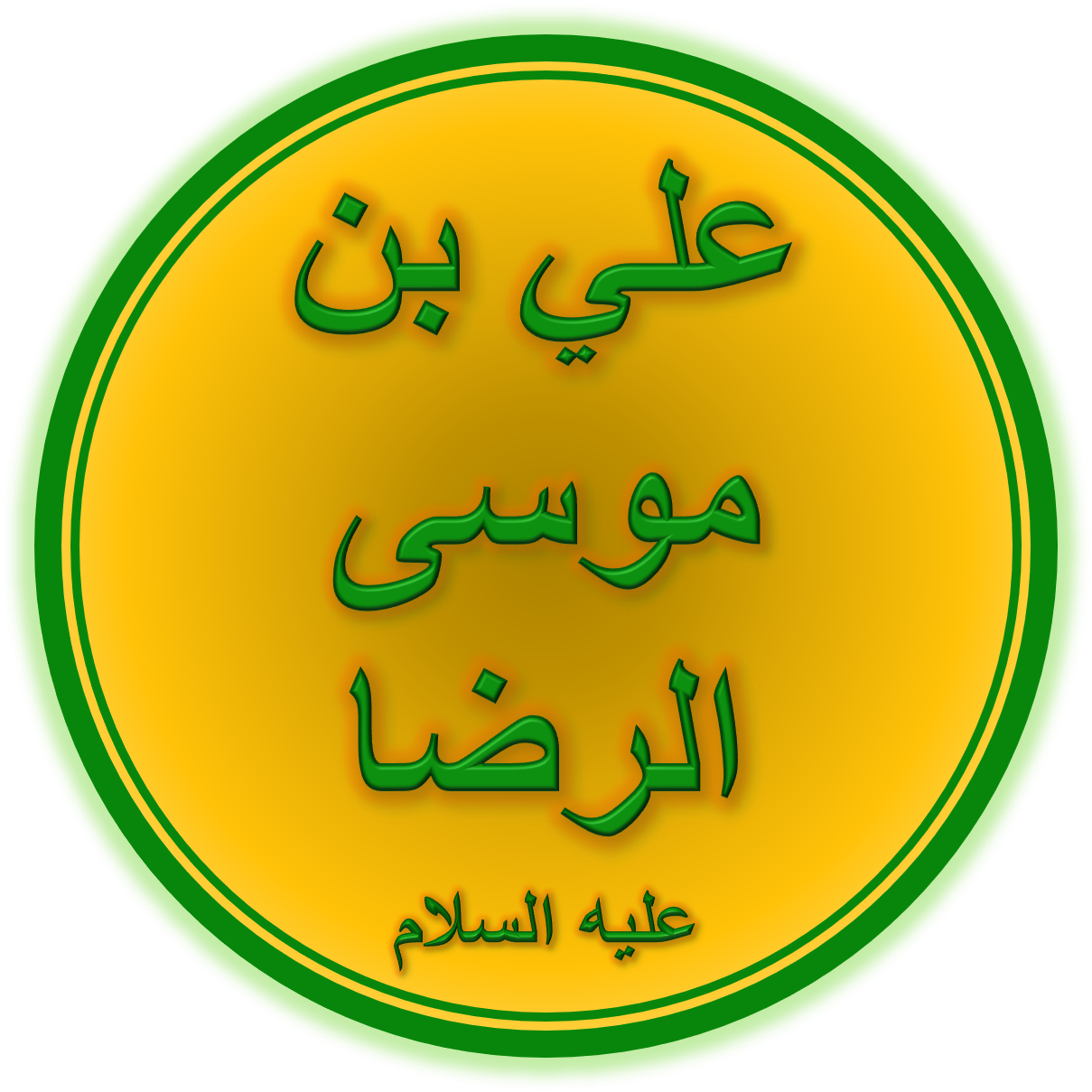 Arabic text with the name and a title of Ali ibn Musa ar-Ridha